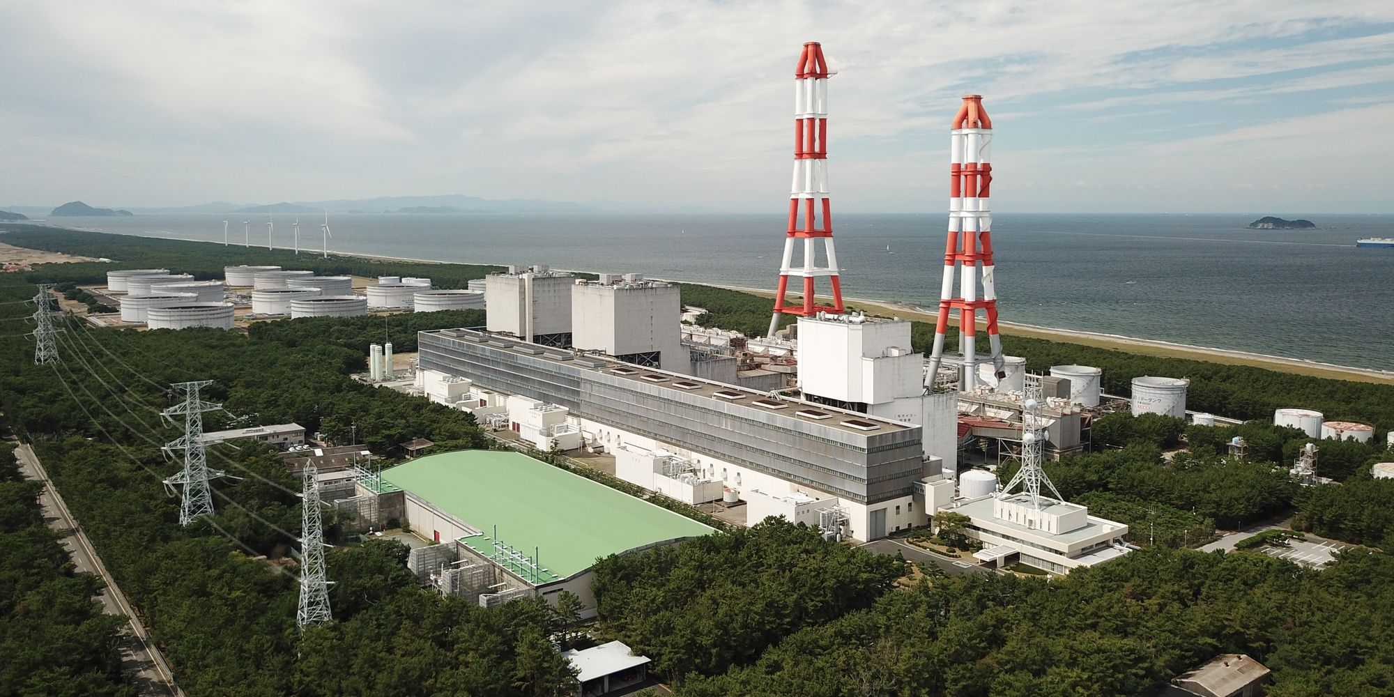 CHUBU electric power company's ATSUMI thermal power plant (TAHARA-City, AICHI-Pref., JAPAN)